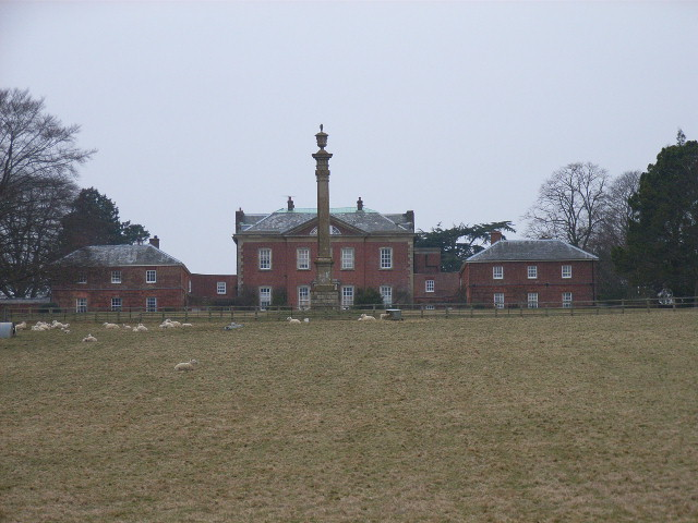 The southeast front of Britwell Salome House, Oxfordshire, seen from the byway. The neoclassical column in front of the house was erected in 1764 for Sir Edward Simeon as a monument to his parents.